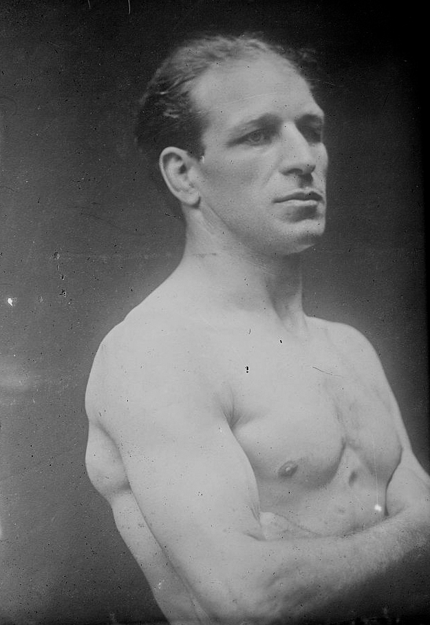 Joseph (Joe) Bartlett Choynski without shirt.